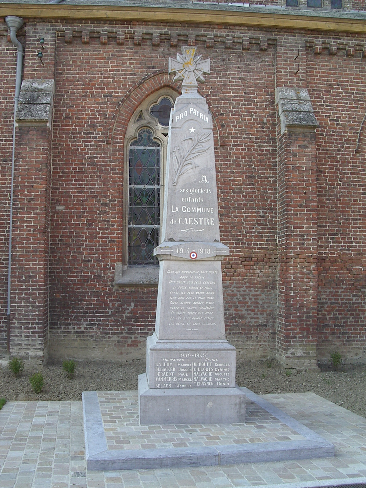 War memorial in Caëstre (Nord, France)